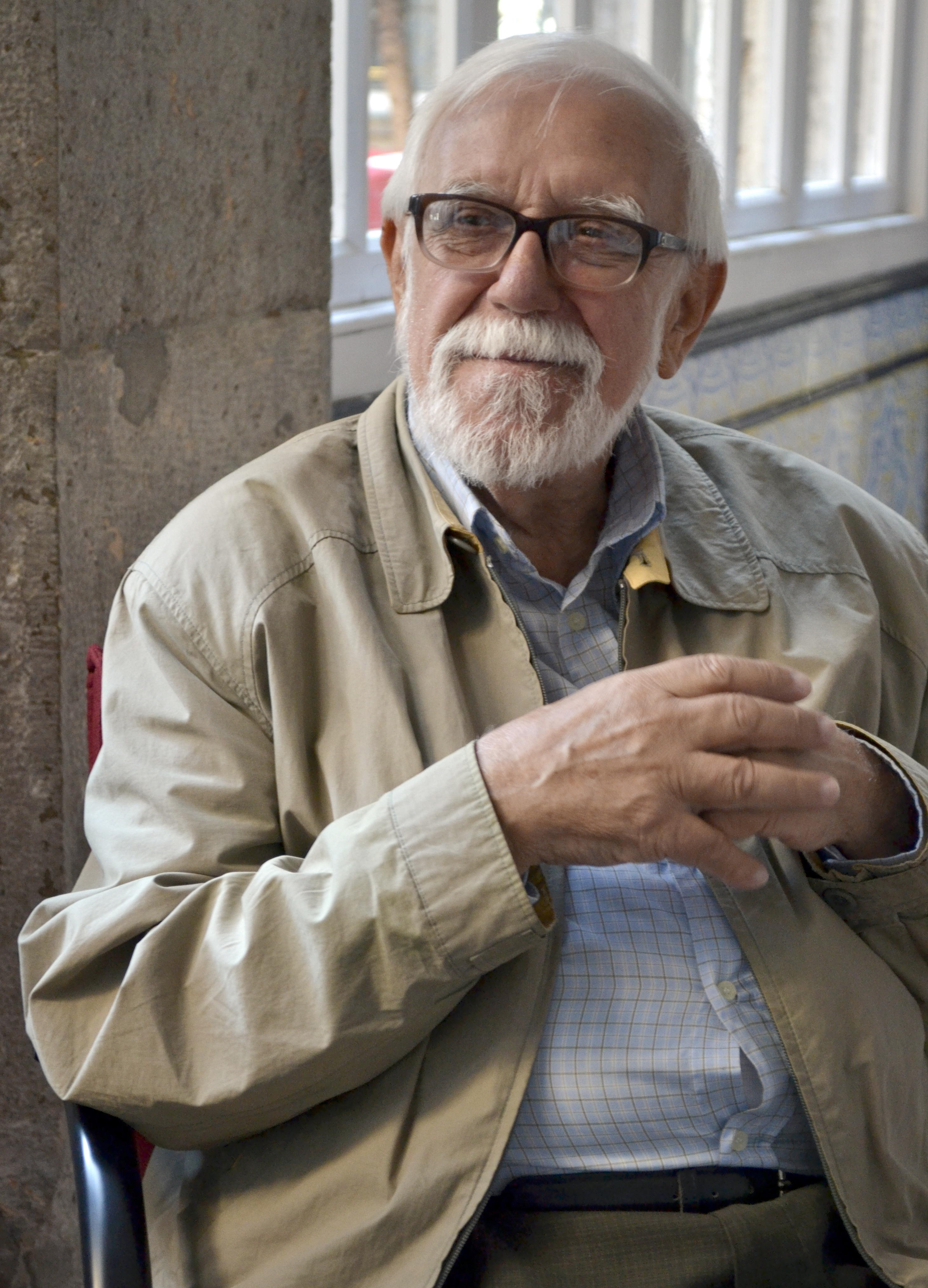 Bartomeu Meliá, Spanish anthropologist.